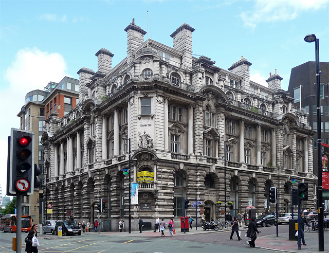 Typically ornate work of Edwardian Baroque, with a columns, open pediments, rusticated chimneys and a rusticated ground floor. All in the obligatory Portland stone. By Charles Heathcote, 1915 (who did more on this street). Grade II listed.